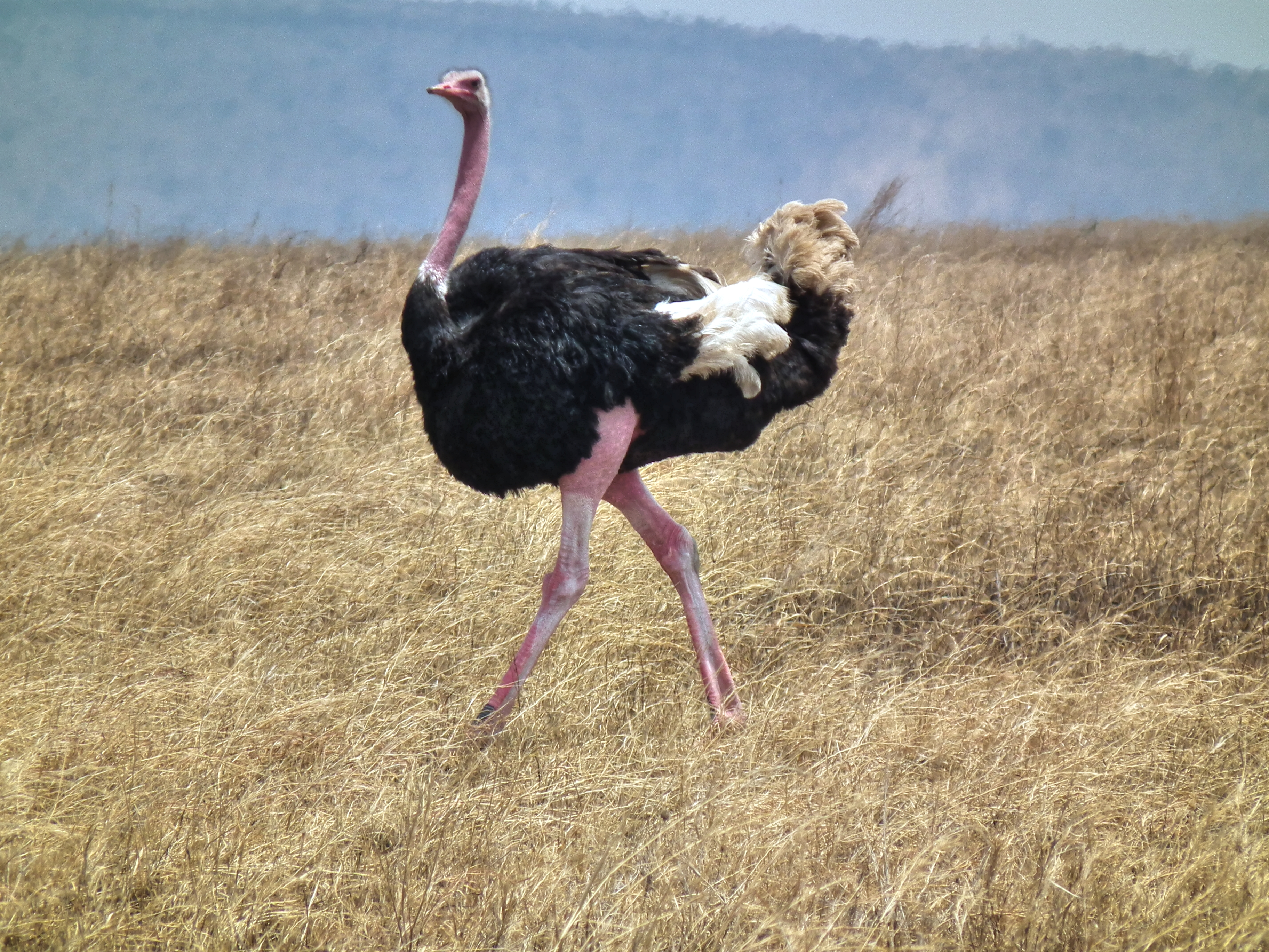 Ostrich, Struthio camelus in Tanzania